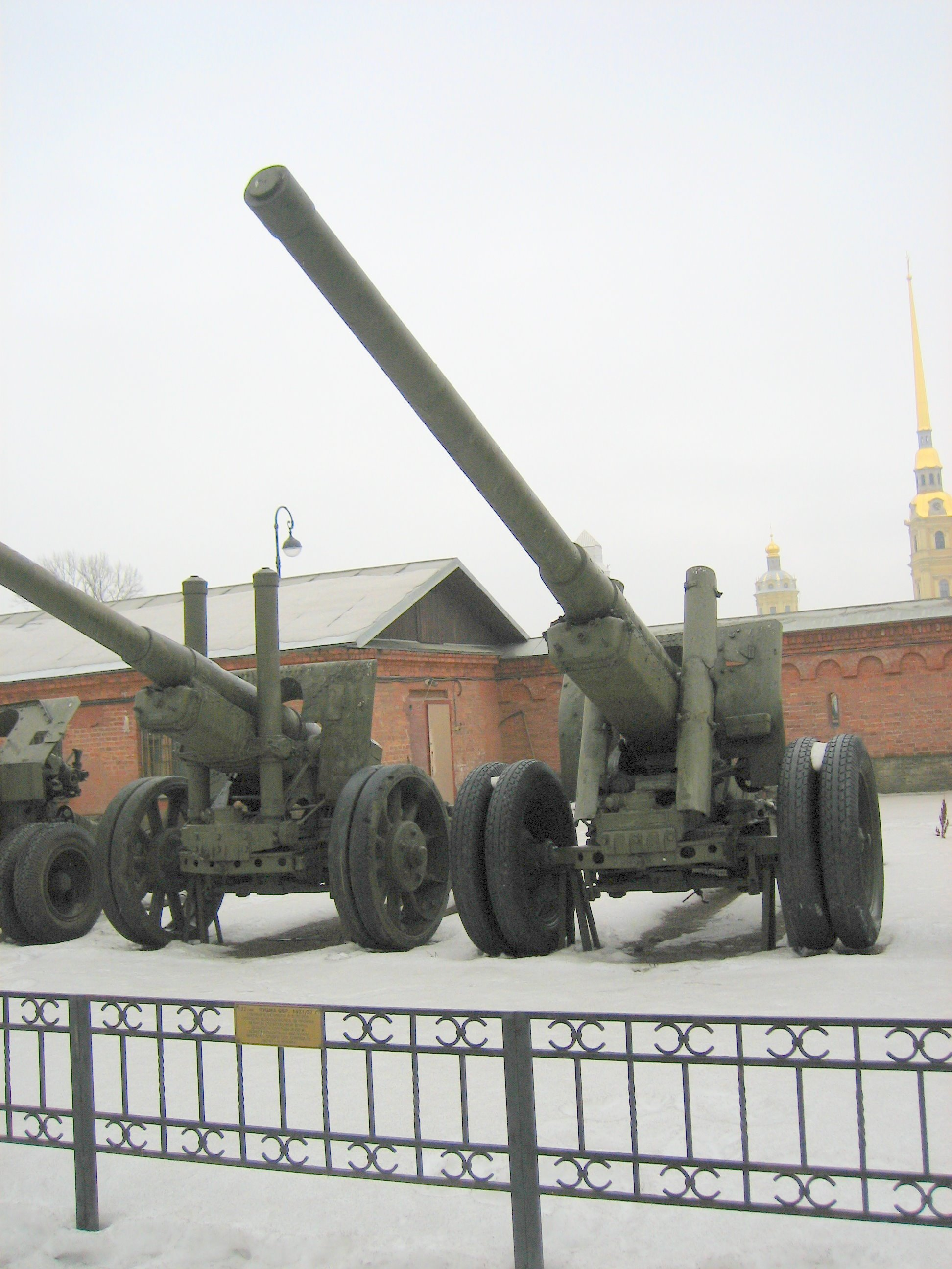 Soviet 122 mm А-19 Mark 1931/37 gun, displayed in Saint Petersburg Artillery Museum. Photo taken on 3 Marсh, 2007. Source: Photo by me, User:Saiga20K.